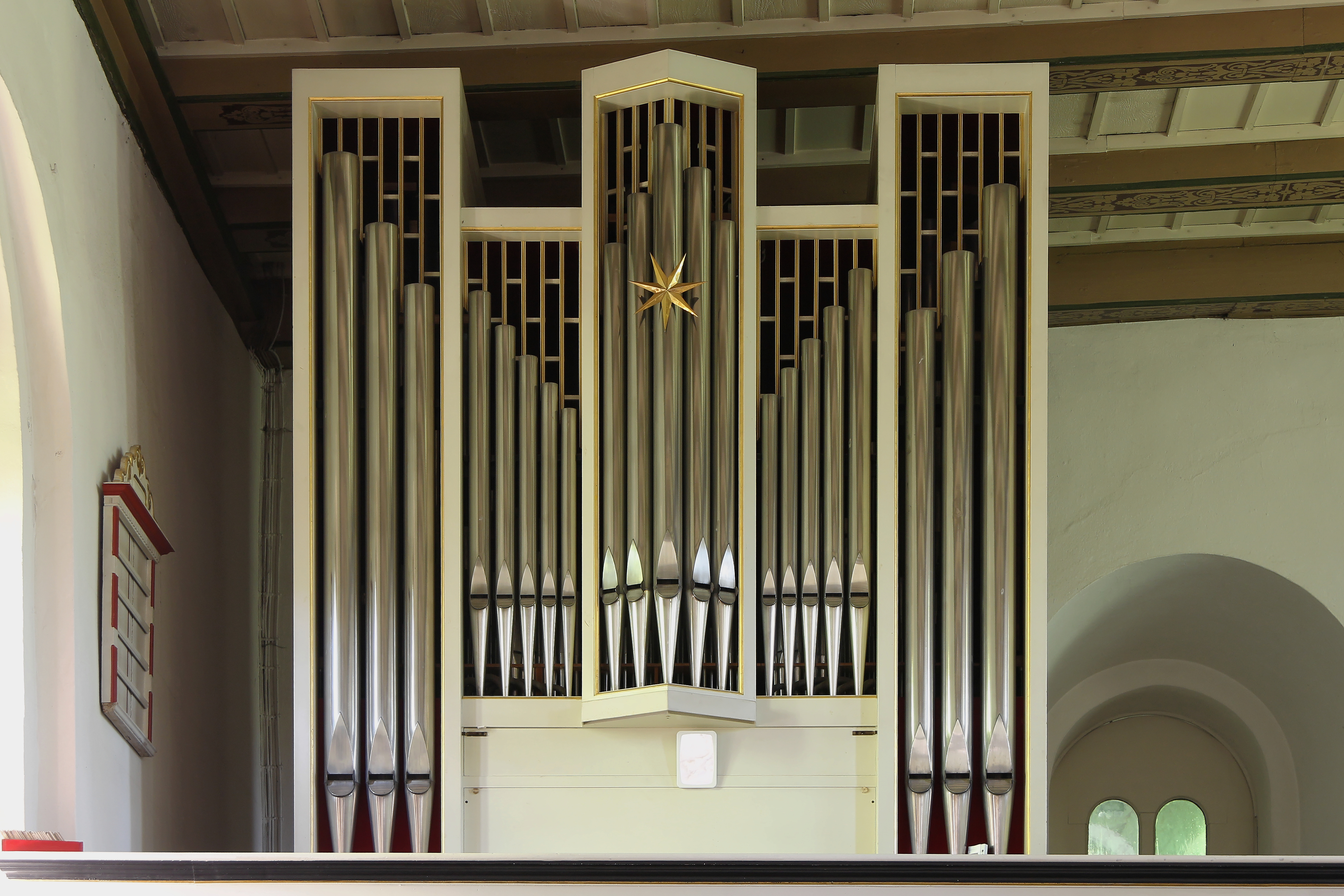 Church of Hamburg-Sinstorf, interior, pipe organThis is a photograph of an architectural monument.